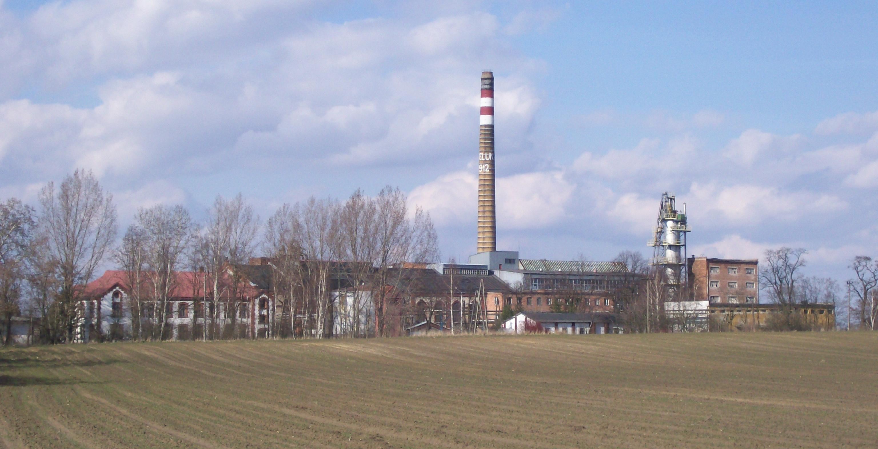 Sugar refinery in Wieluń, Poland